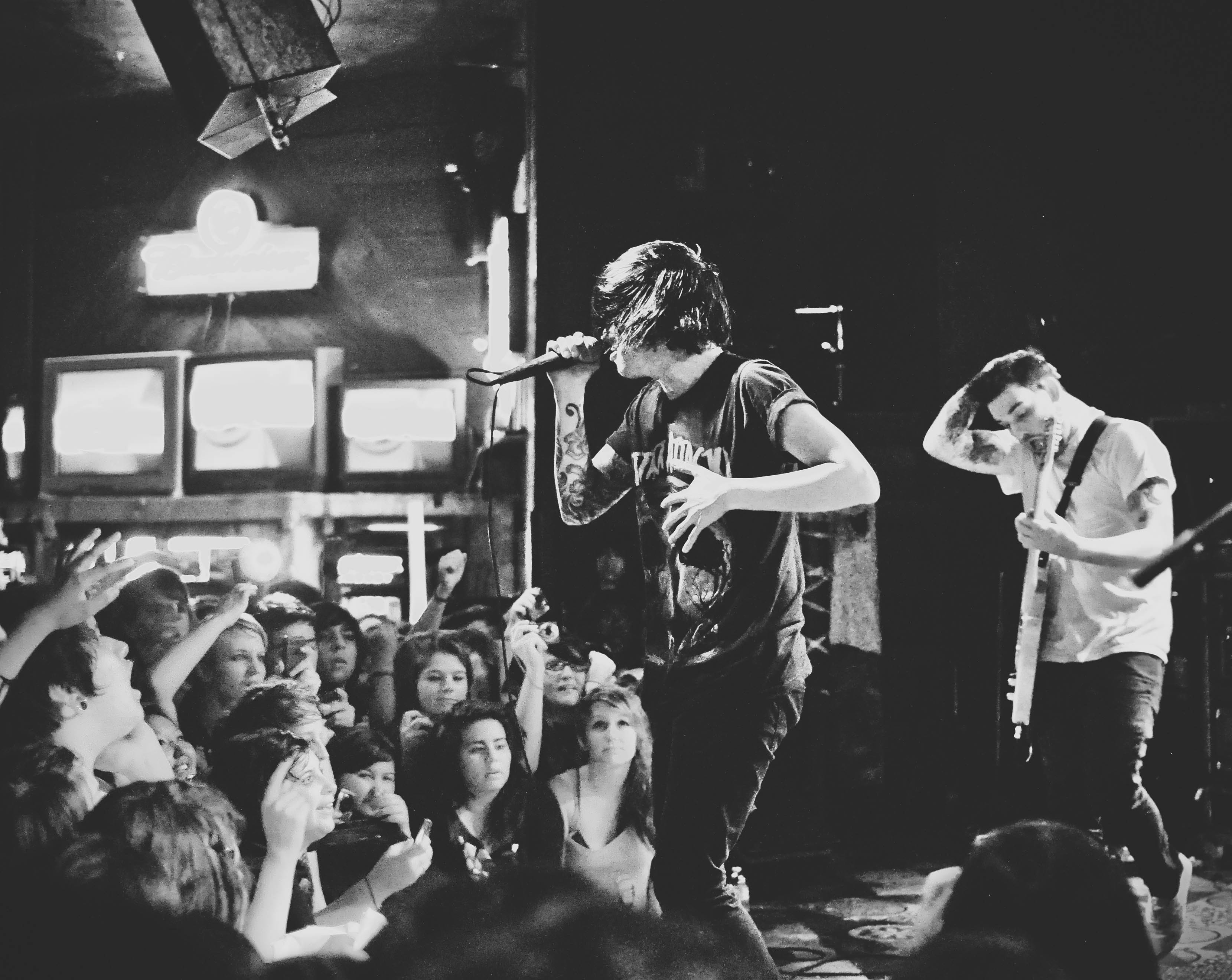 The Rock - Tucson, AZ